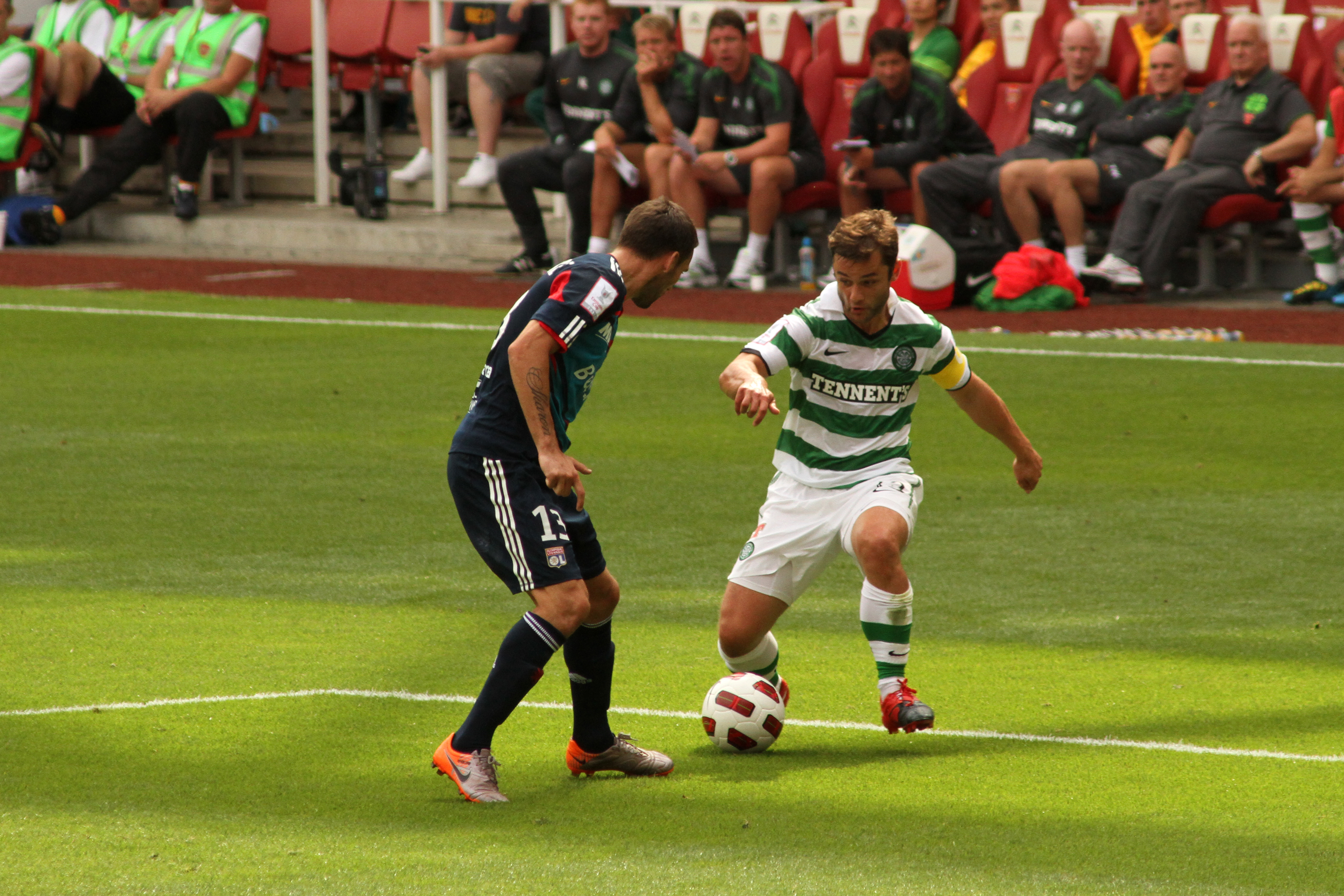 Anthony Réveillère (olympique Lyonnais) and Shaun Maloney (Glasgow Celtic) - 31 july 2010